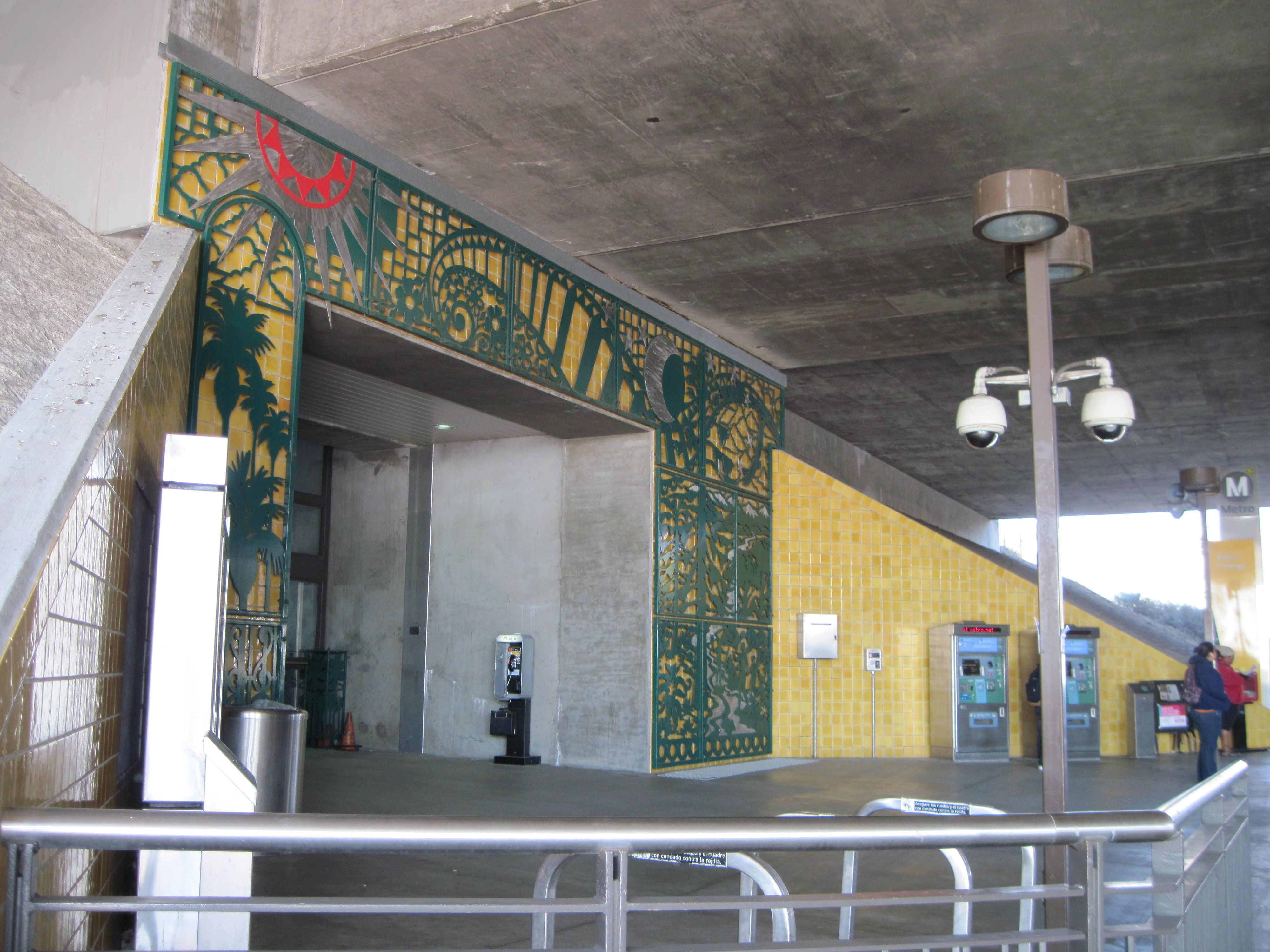 The Los Angeles County Metropolitan Transportation Authority's Allen station, serving the Metro Gold Line in Pasadena, California, USA.